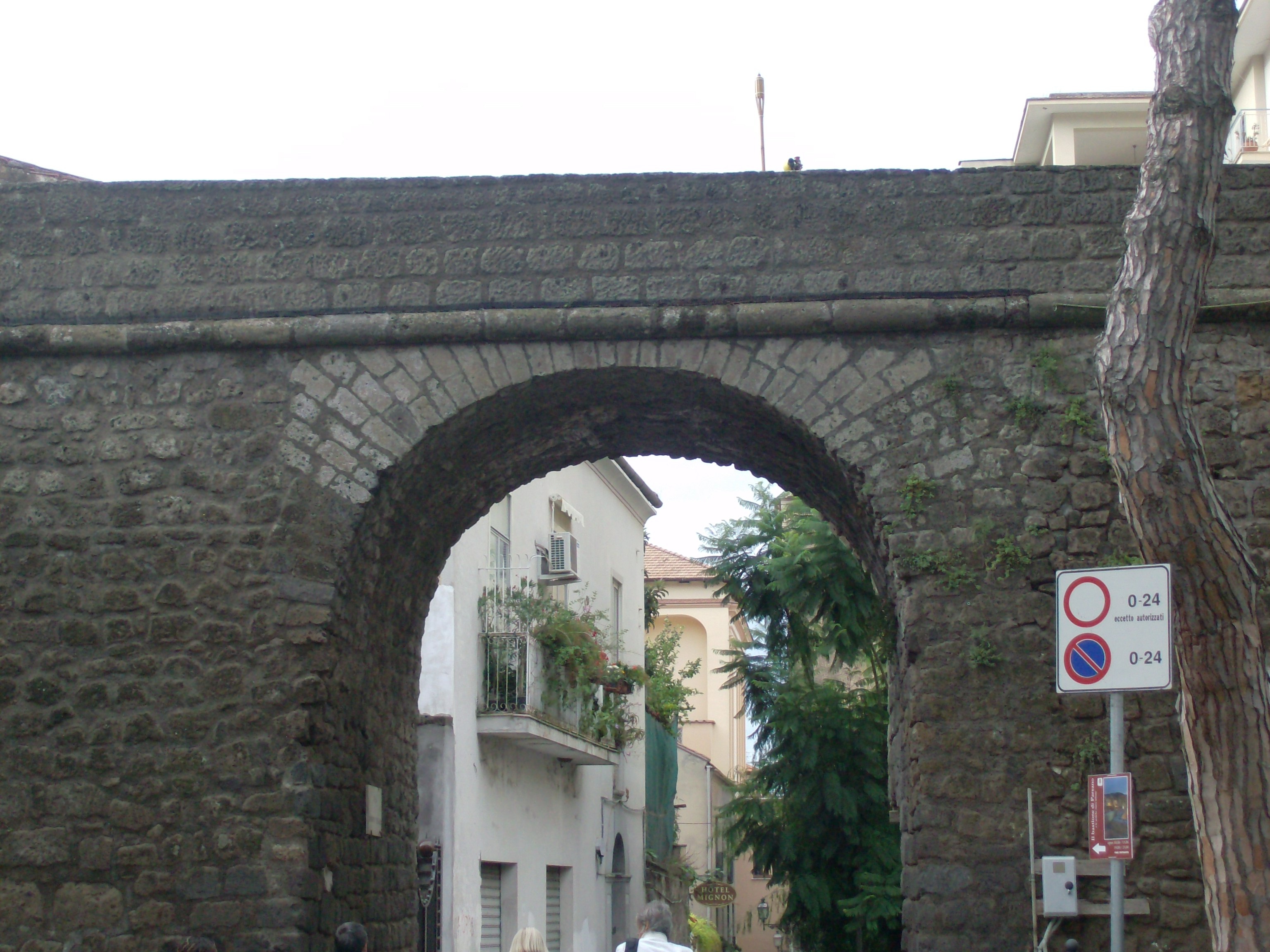 Arco all'entrata di Sorrento